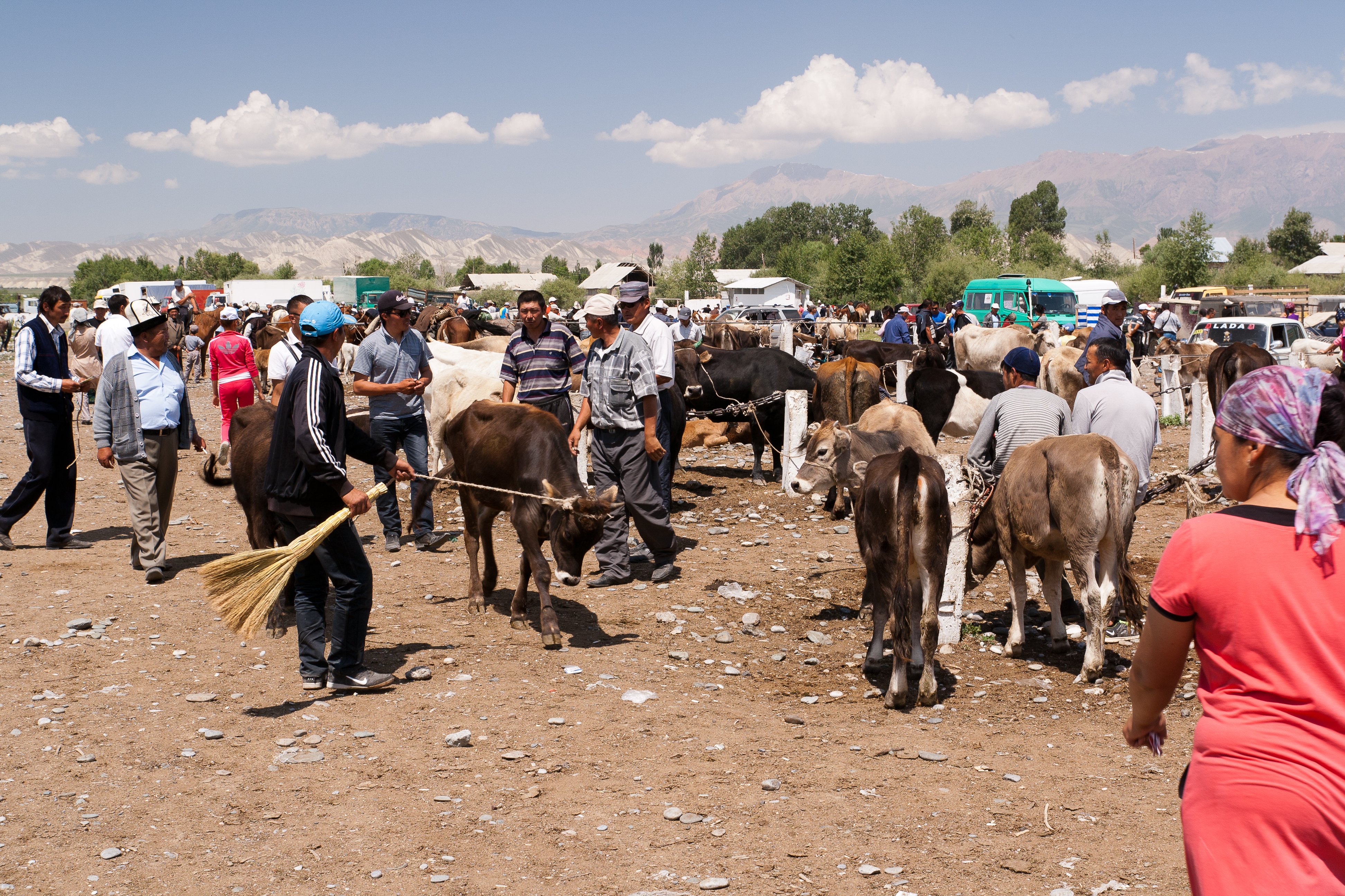 livestock market in At-Bashi/Kyrgyzstan